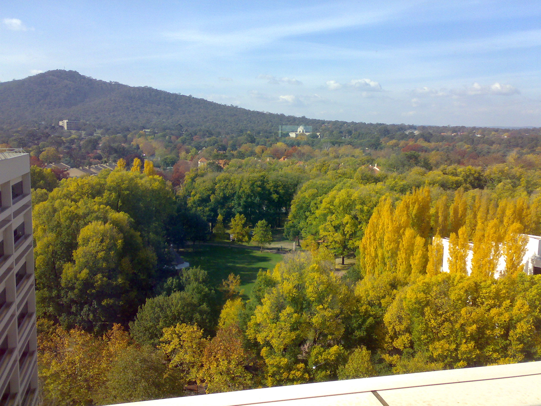 Looking towards Mount Ainslie, Glebe Park and Reid.